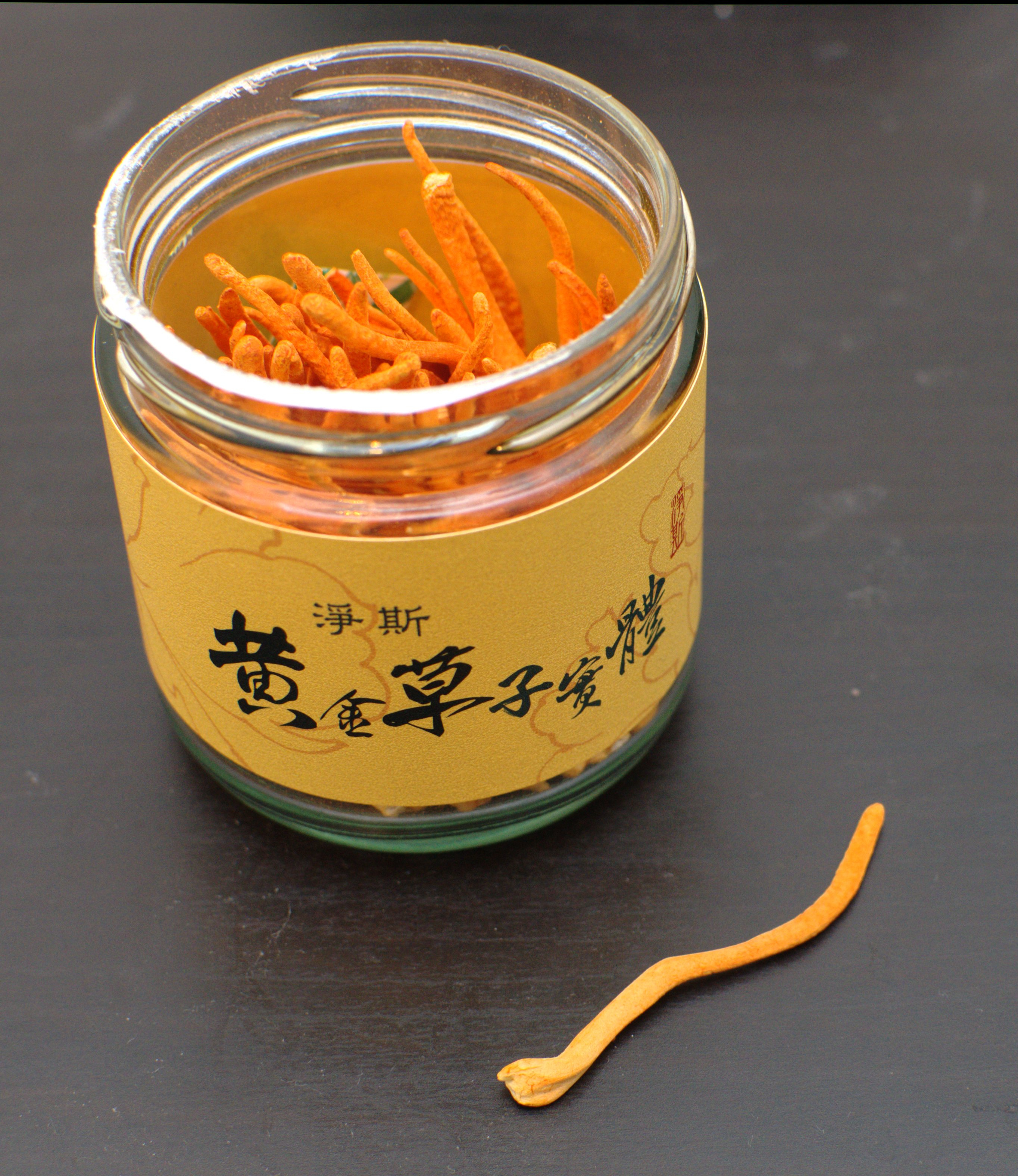 Cordyceps militaris, commercially grown in Hualien, Taiwan, in 2019. The product line is affiliated with the Buddhist organization Tzu Chi, suggesting that the fungi were grown on plant-based media instead of insects.